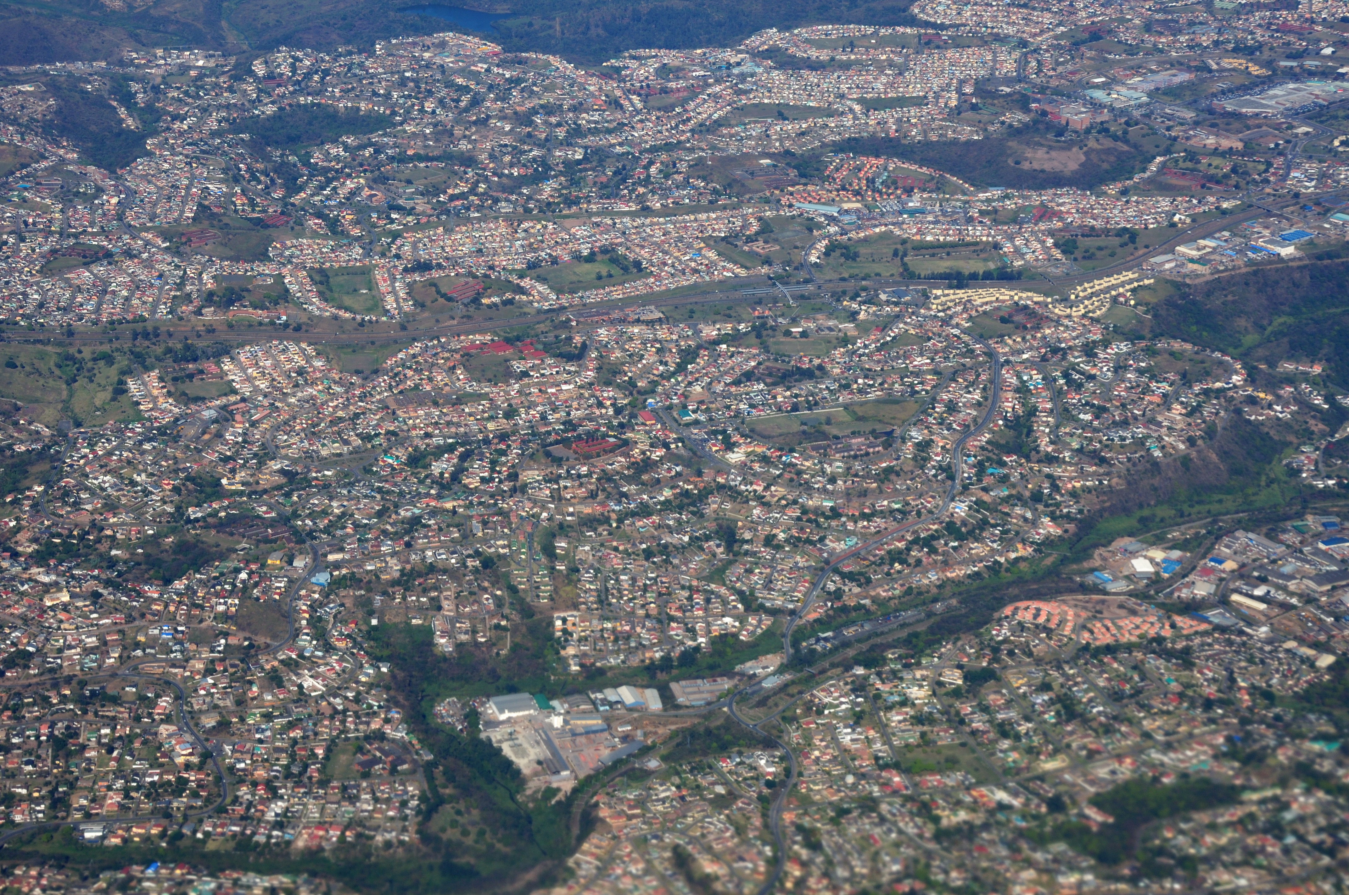 South Africa, Aerial view of Durban